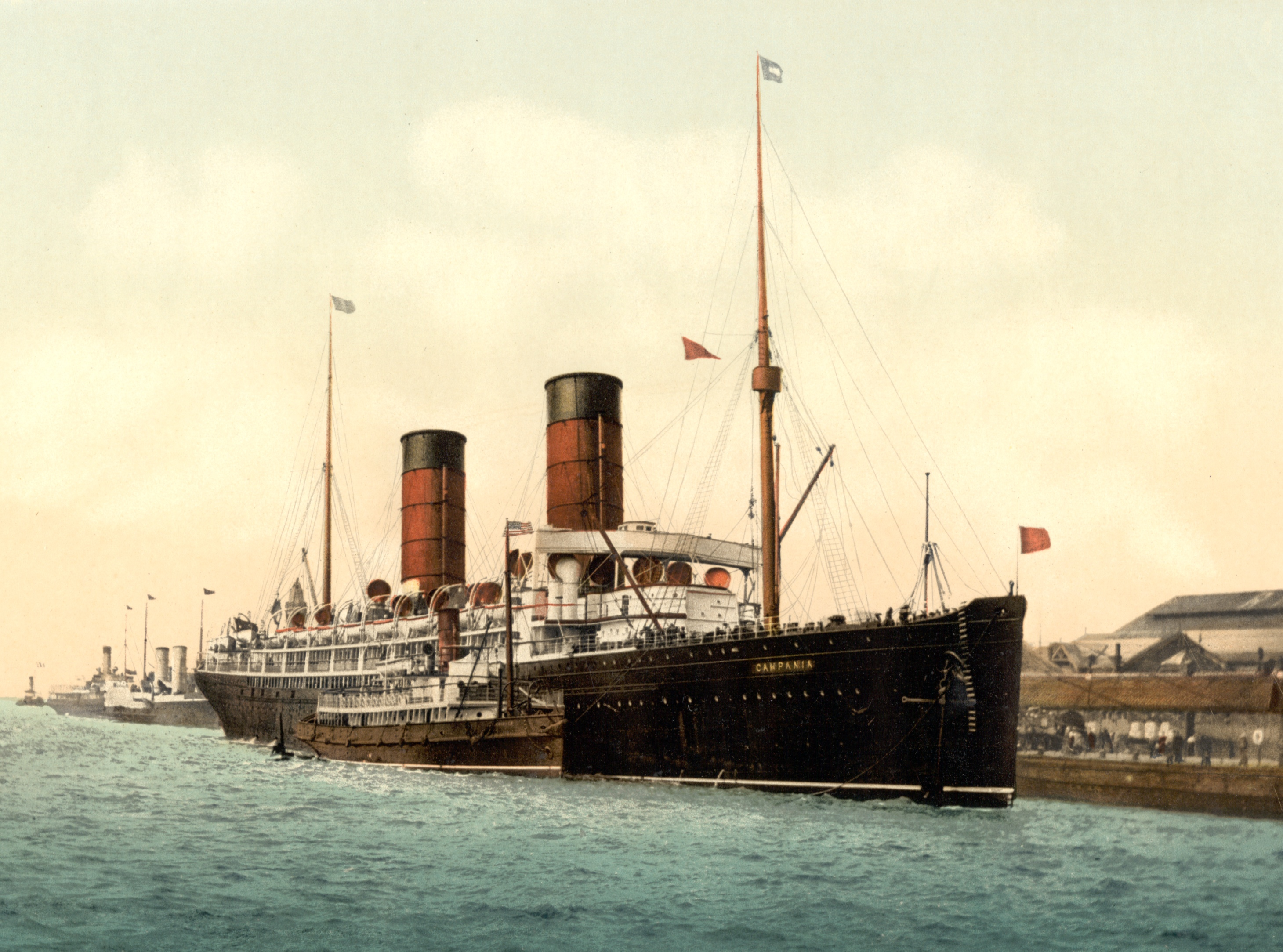 RMS Campania in the Mersey. Print no. "11281"